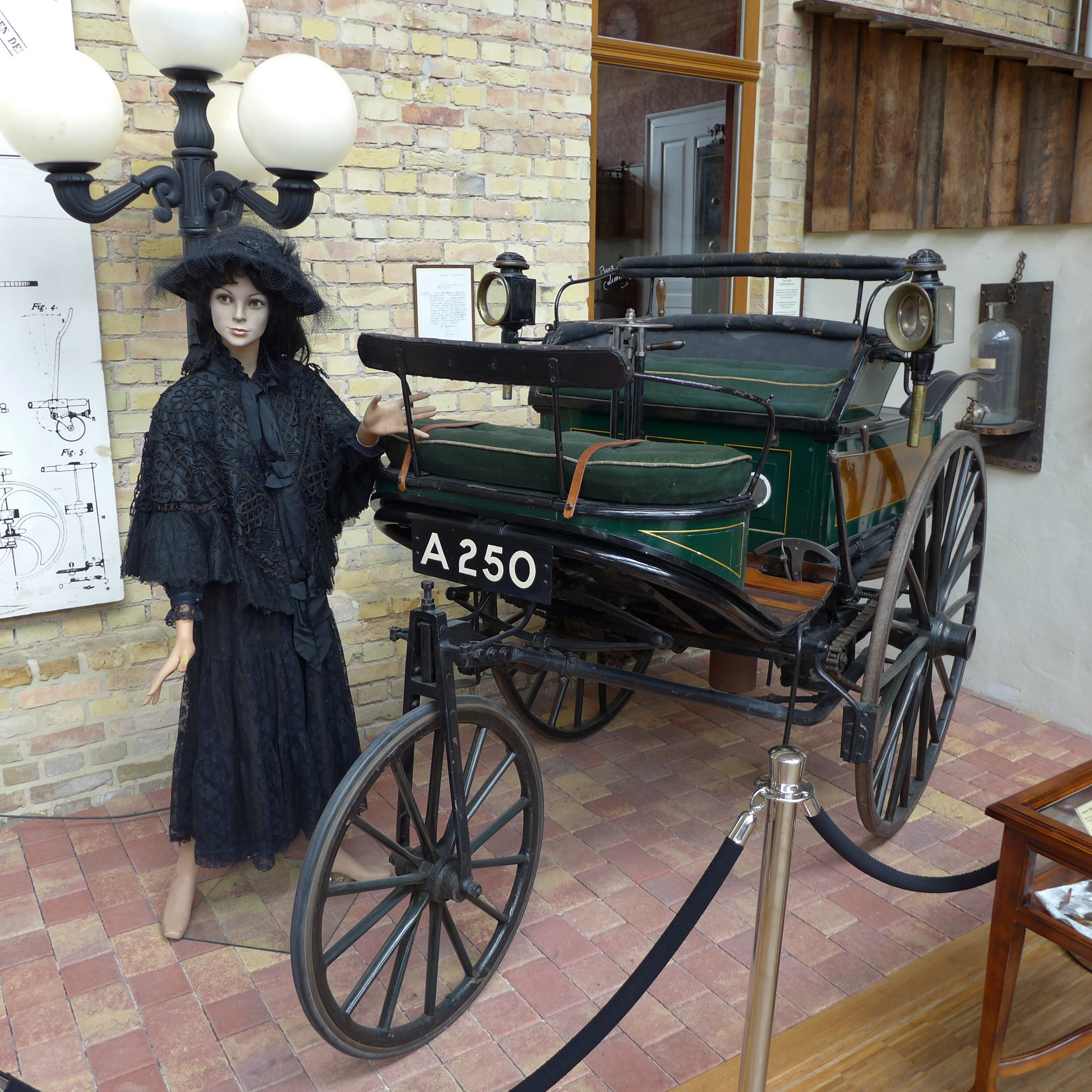 An 1888 Benz Patent-Motorwagen Model No. 3, on display at the Automuseum Dr. Carl Benz, Ladenburg, Baden-Württemberg, Germany.